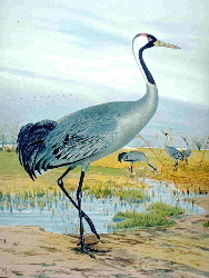 Crane